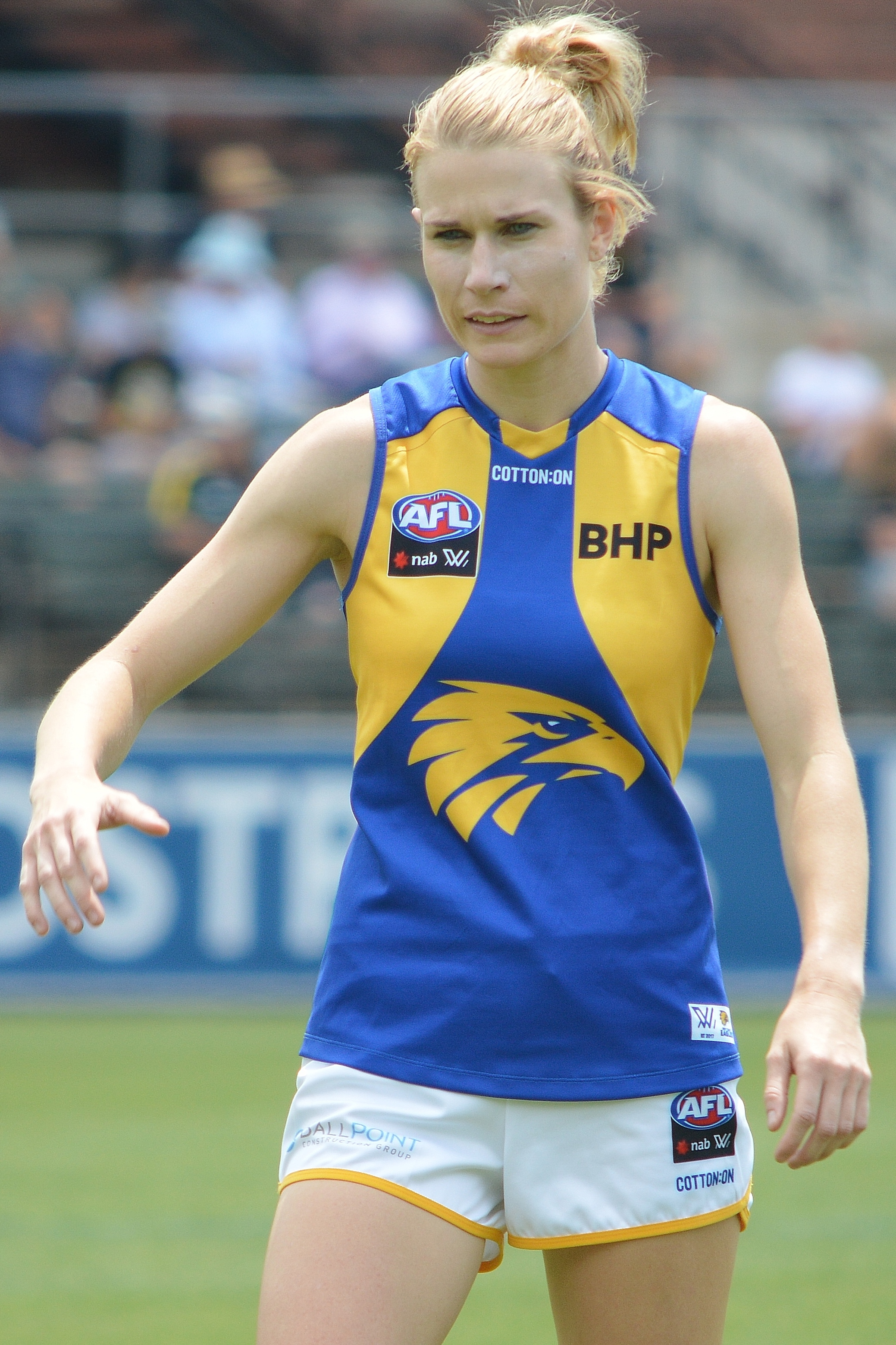 Dana Hooker with West Coast during a pre-season AFL Women's match against Richmond at Punt Road Oval in January 2020.